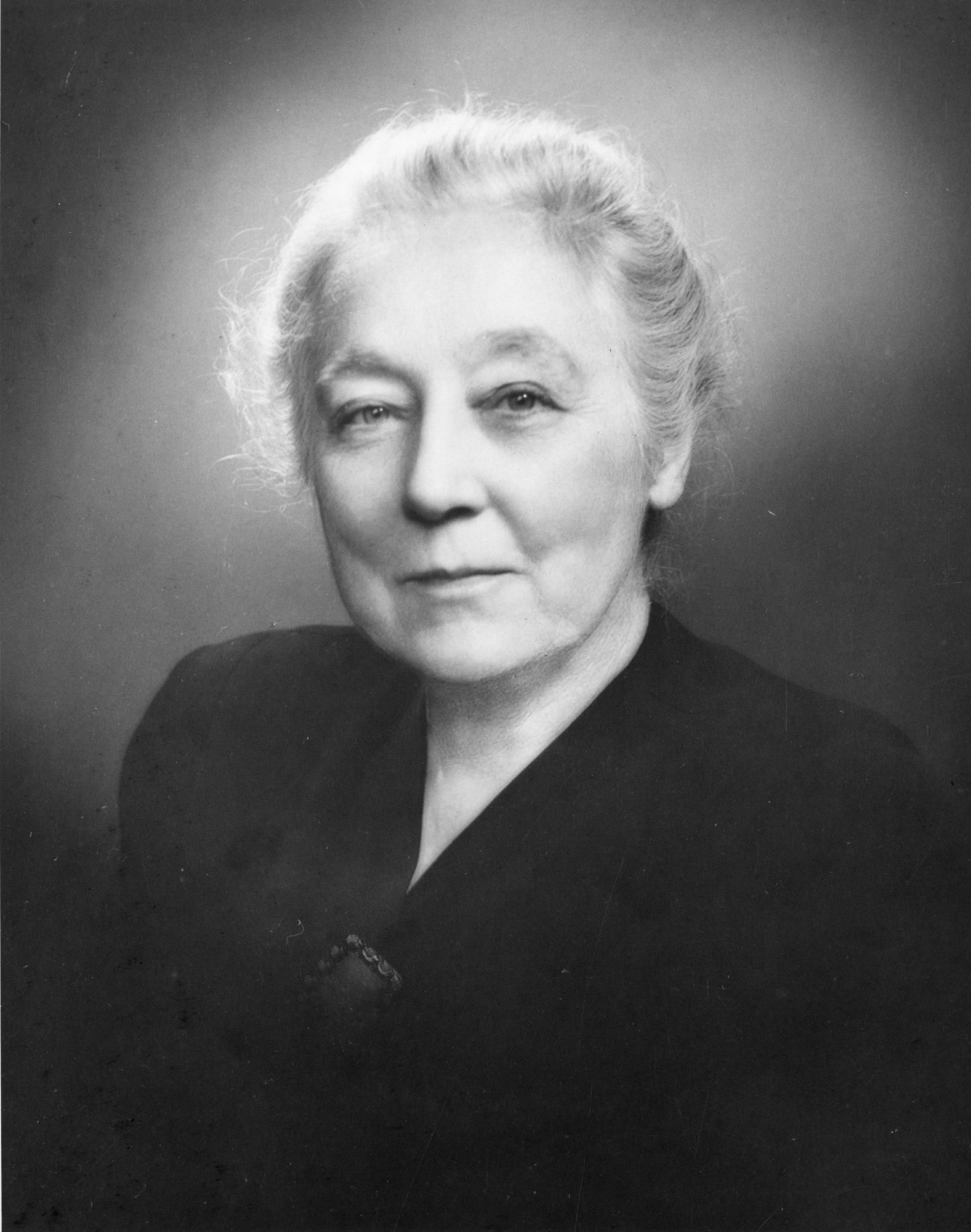 Subject: Macfarlane, Catharine 1877-1969 Type: Black-and-white photographs Date: 1940 C. 1940s Topic: Gynecology Cancer--Research Women scientists Local number: SIA Acc. 90-105 [SIA2008-5682] Summary: Catherine Macfarlane (1877-1969) was a Philadelphia gynecologist and cancer researcher. In 1951, she received a Lasker Clinical Medical Research Award, jointly with Elise Depew Strang L'Esperance, for her work helping to establish cancer treatment centers for women Cite as: Acc. 90-105 - Science Service, Records, 1920s-1970s, Smithsonian Institution Archivess Persistent URL:Link to data base record Repository:Smithsonian Institution Archives View more collections from the Smithsonian Institution.